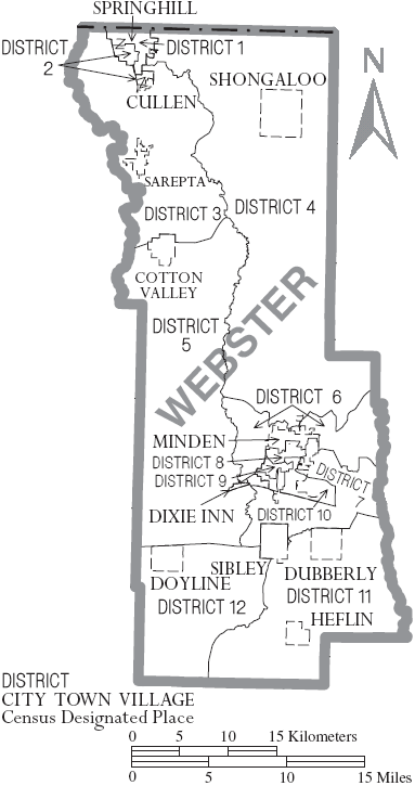 Map of Webster Parish, Louisiana, United States with district and municipal boundaries